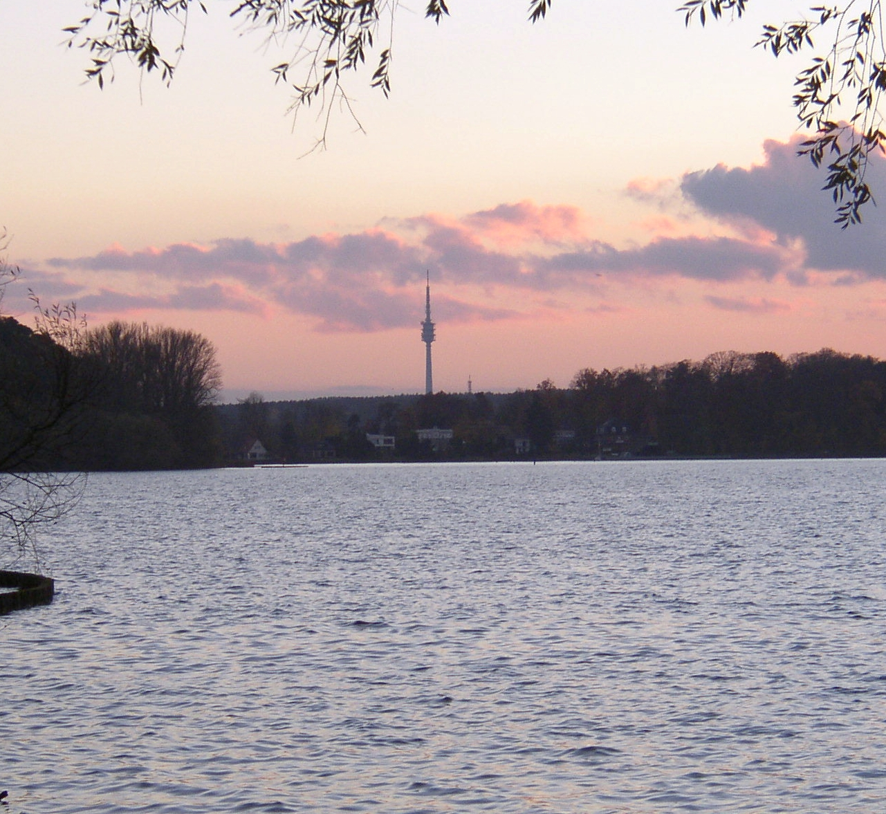 The Fernmeldeturm Berlin-Schäferberg viewed from Große Steinlanke